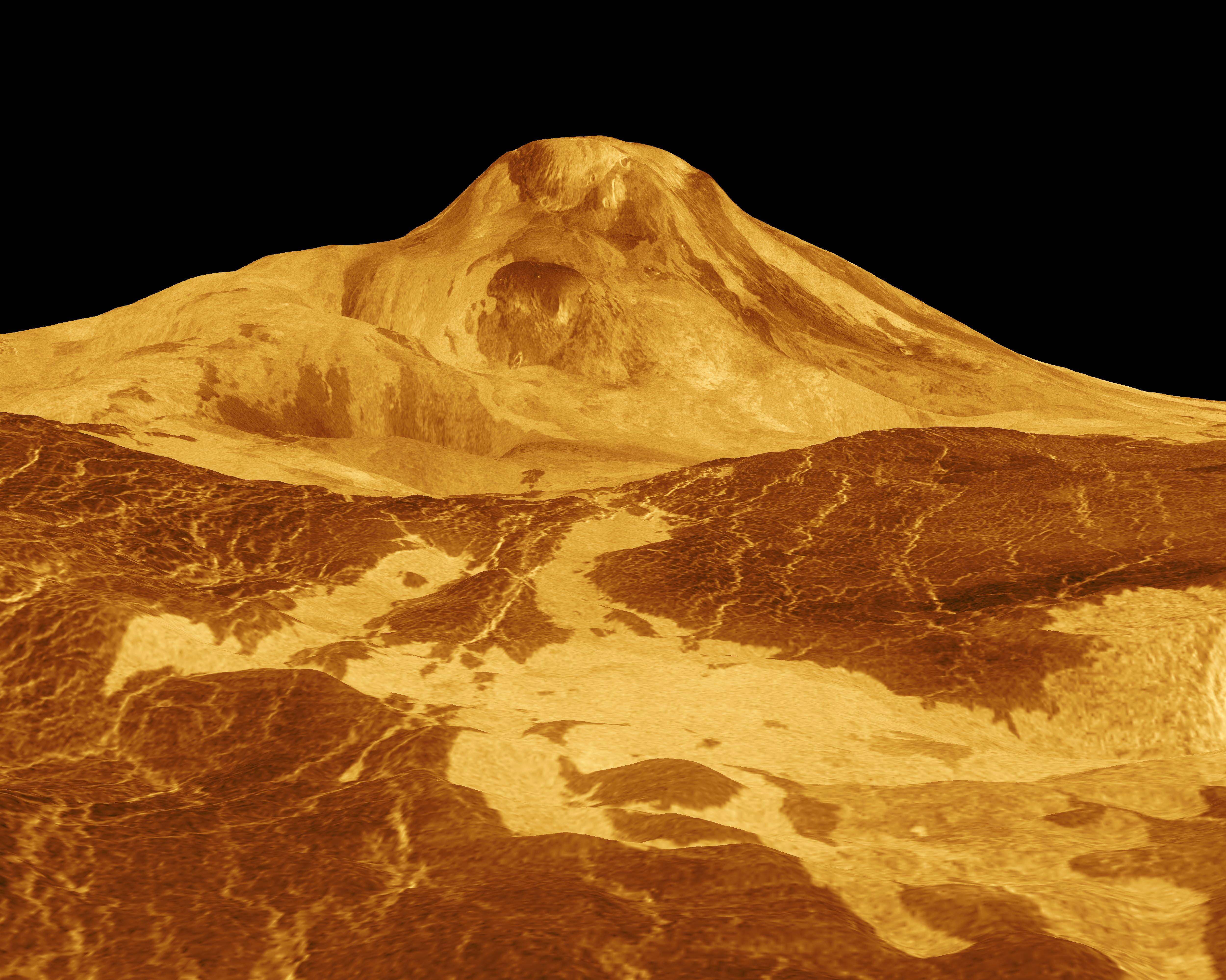 Maat Mons is displayed in this three-dimensional perspective view of the surface of Venus. The viewpoint is located 560 kilometers (347 miles) north of Maat Mons at an elevation of 1.7 kilometers (1 mile) above the terrain. Lava flows extend for hundreds of kilometers across the fractured plains shown in the foreground, to the base of Maat Mons. The view is to the south with Maat Mons appearing at the center of the image on the horizon. Maat Mons, an 8-kilometer (5 mile) high volcano, is located at approximately 0.9 degrees north latitude, 194.5 degrees east longitude. Maat Mons is named for an Egyptian goddess of truth and justice. Magellan synthetic aperture radar data is combined with radar altimetry to develop a three-dimensional map of the surface. The vertical scale in this perspective has been exaggerated 22.5 times. Rays cast in a computer intersect the surface to create a three-dimensional perspective view. Simulated color and a digital elevation map developed by the U.S. Geological Survey, are used to enhance small-scale structure. The simulated hues are based on color images recorded by the Soviet Venera 13 and 14 spacecraft. The image was produced at the JPL Multimission Image Processing Laboratory.